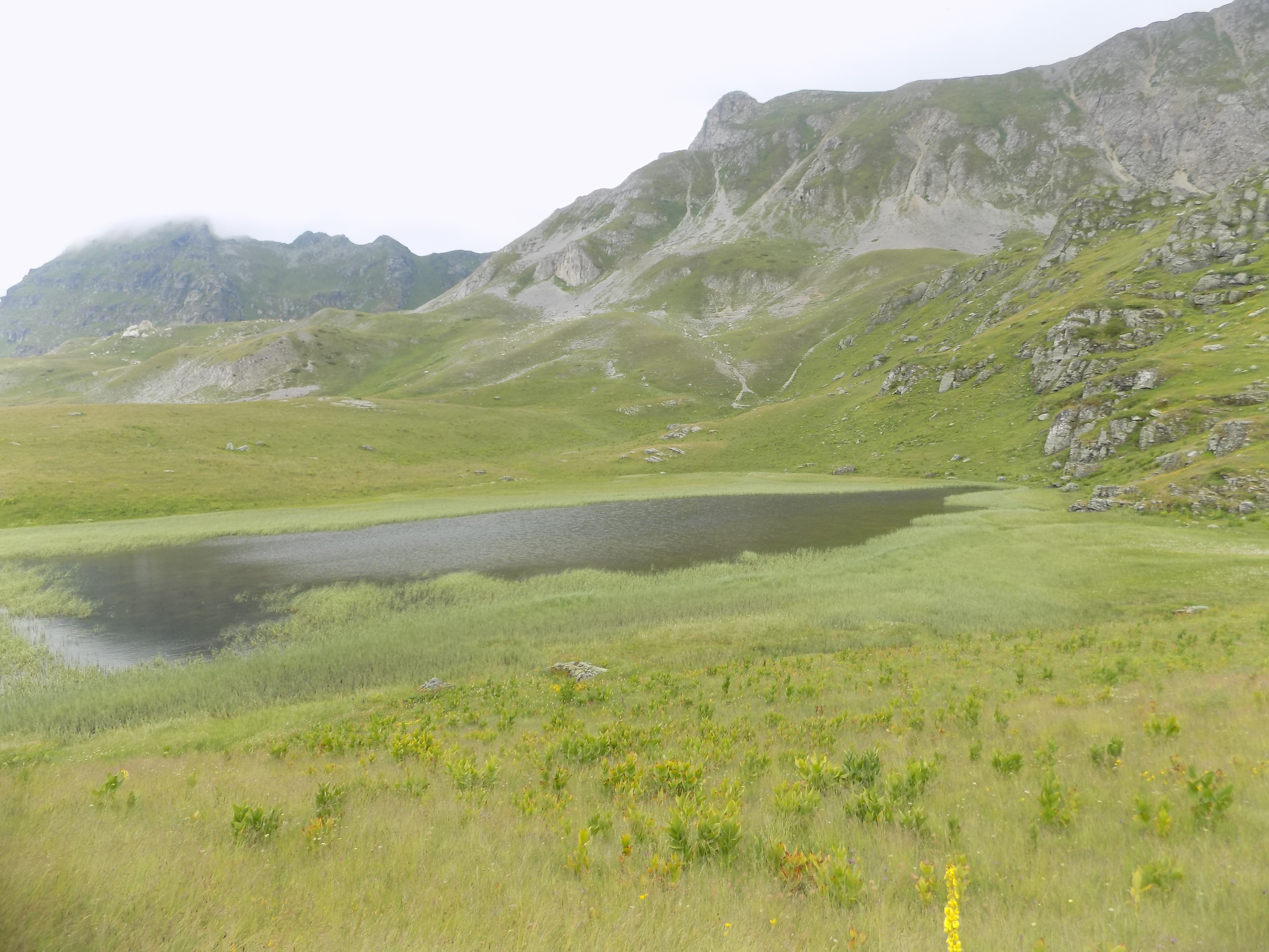 Defsko Lake on Shar Mountain